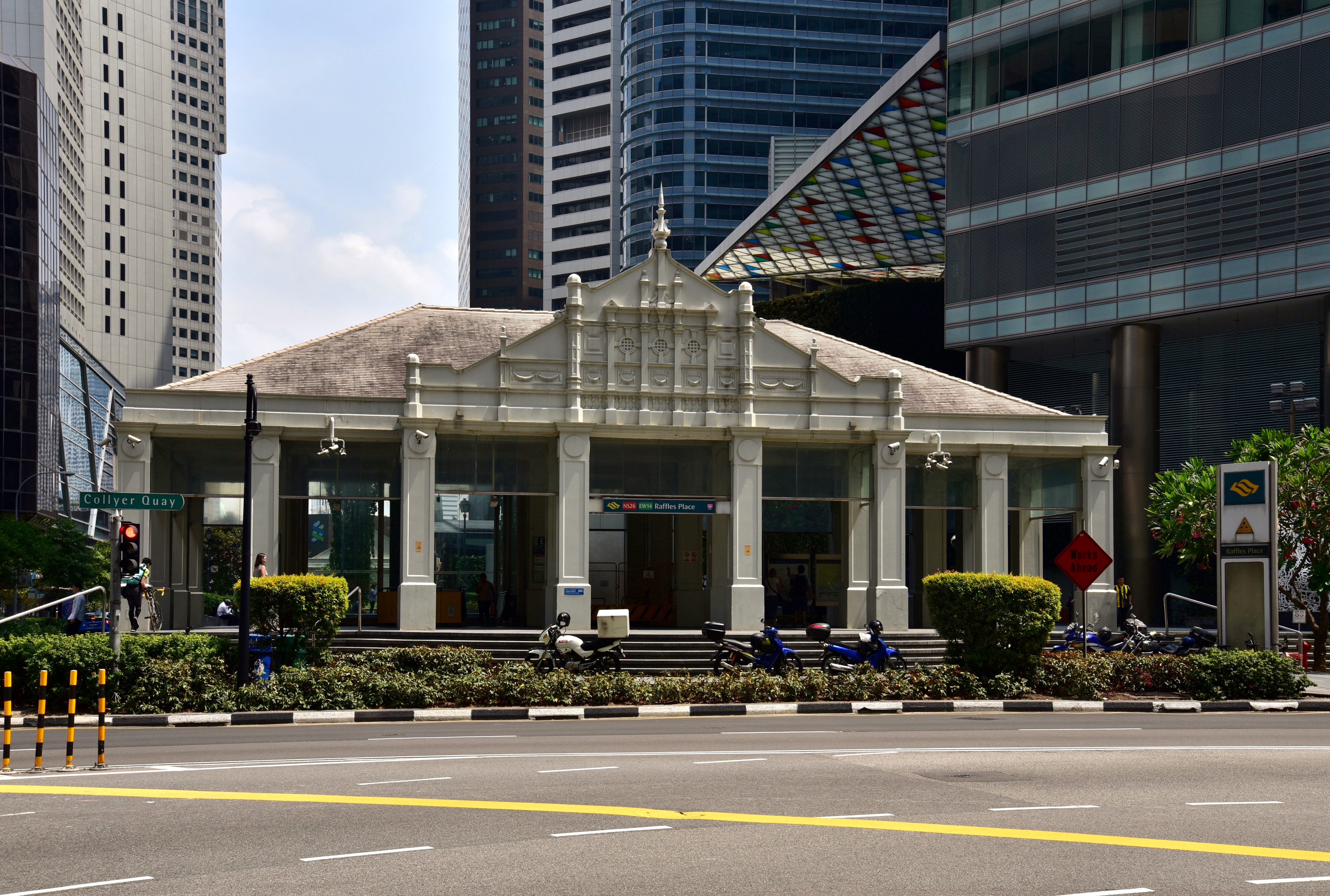 View of the Raffles Place MRT station at street level